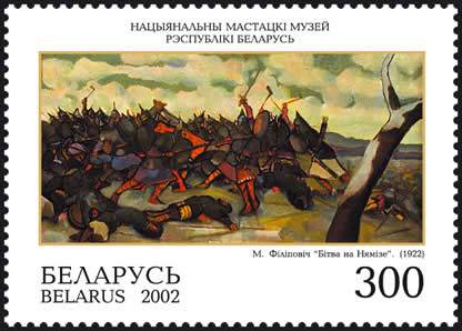 Stamp of Belarus. Mikhail Filippovich "Battle on the Nemiga River"